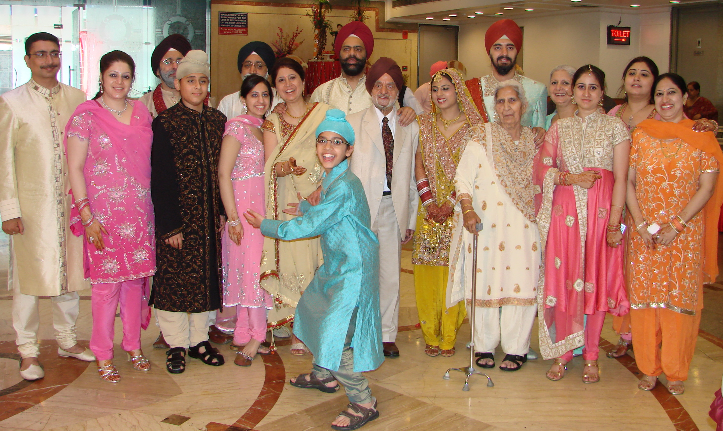 Punjabi people at a wedding